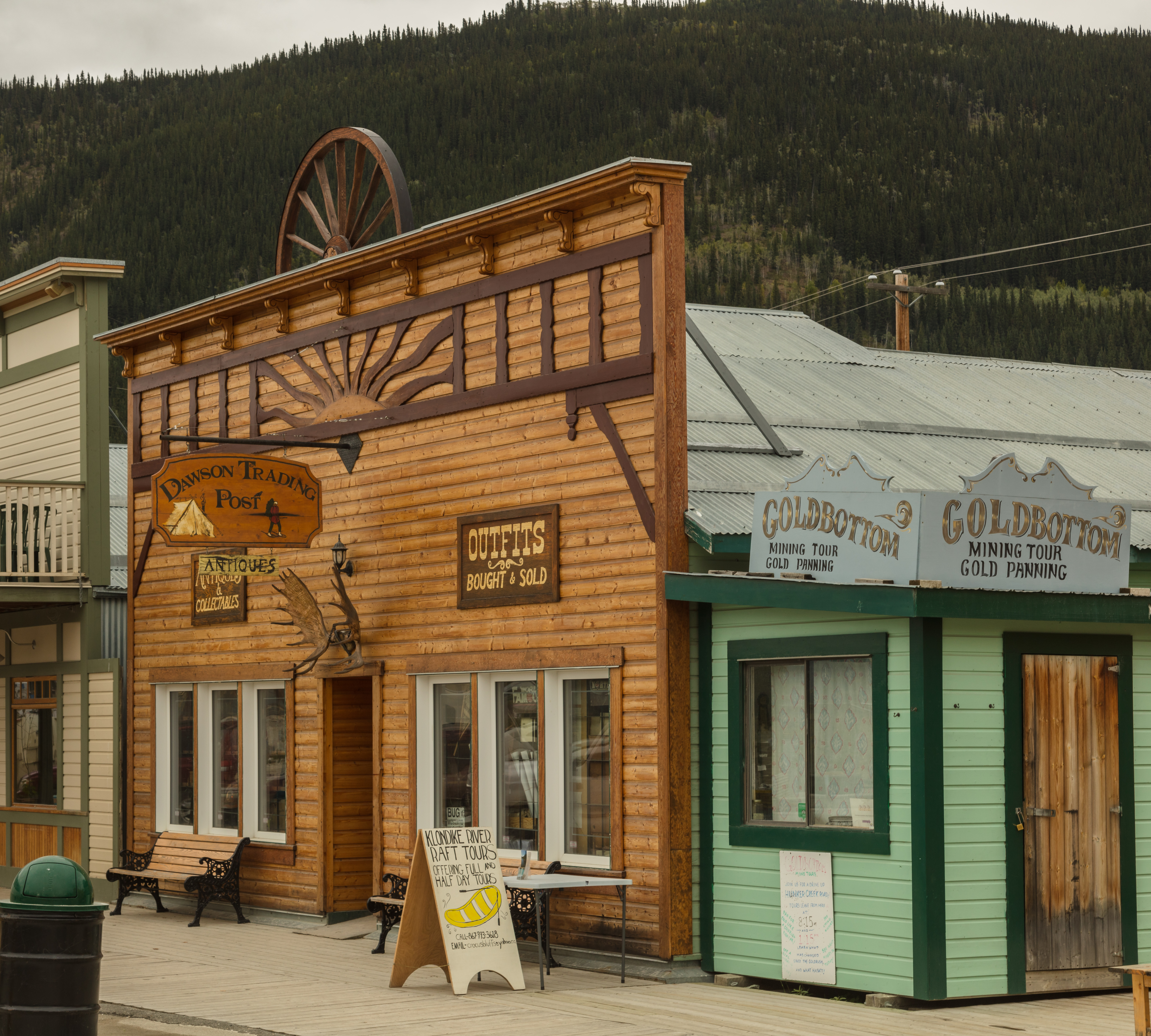 Shop in Front st, Dawson City, Yukon, Canada